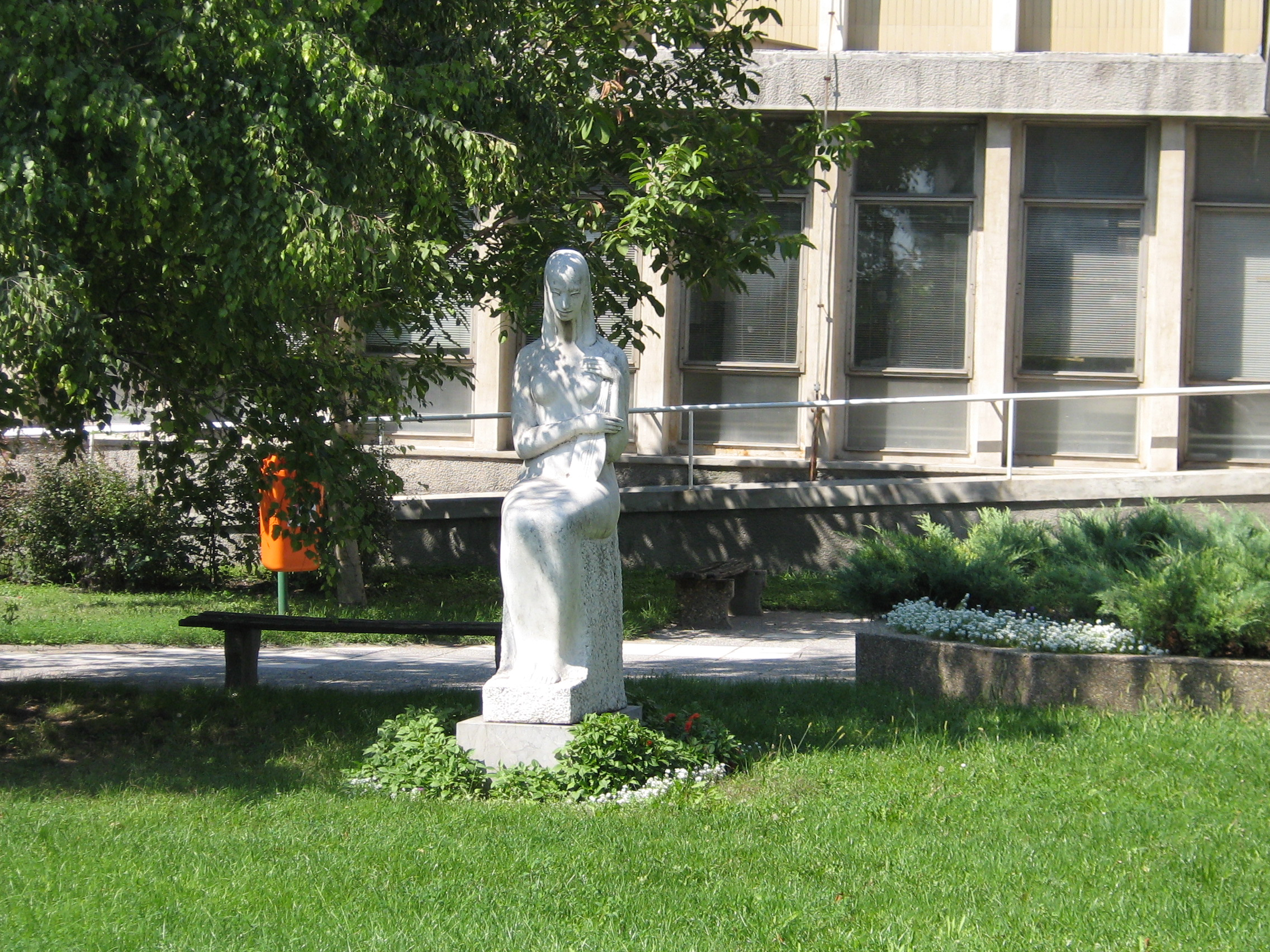 Statue in front of Municipal court in Pančevo